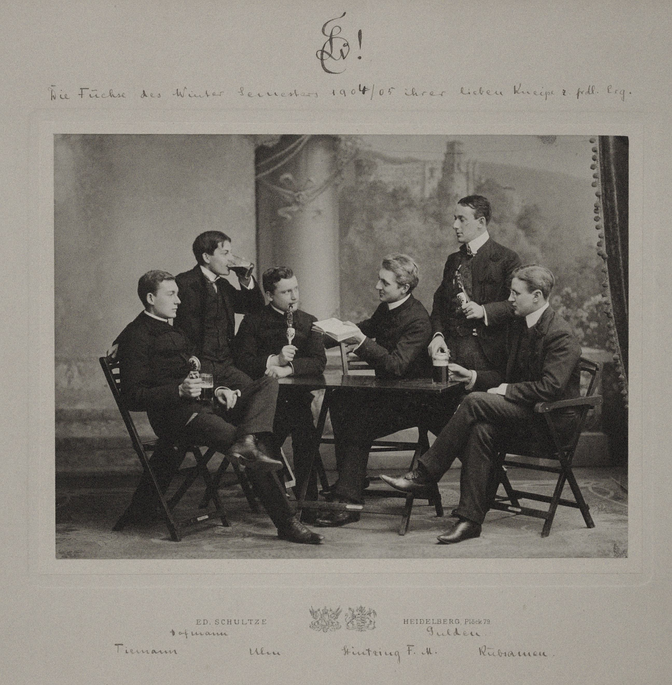 Photography of new members of the German student association Leonensia of Heidelberg.